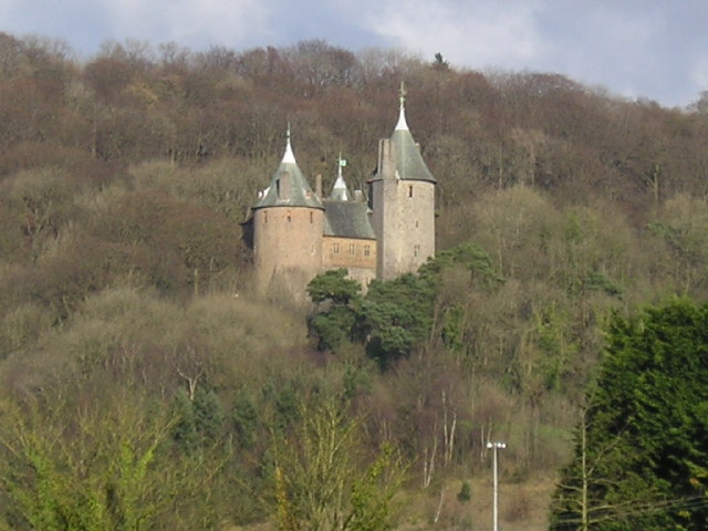 Castle Coch This picture was taken from Morganstown. I think that Castle Coch looks very majestic from here as though someone has just planted it there.